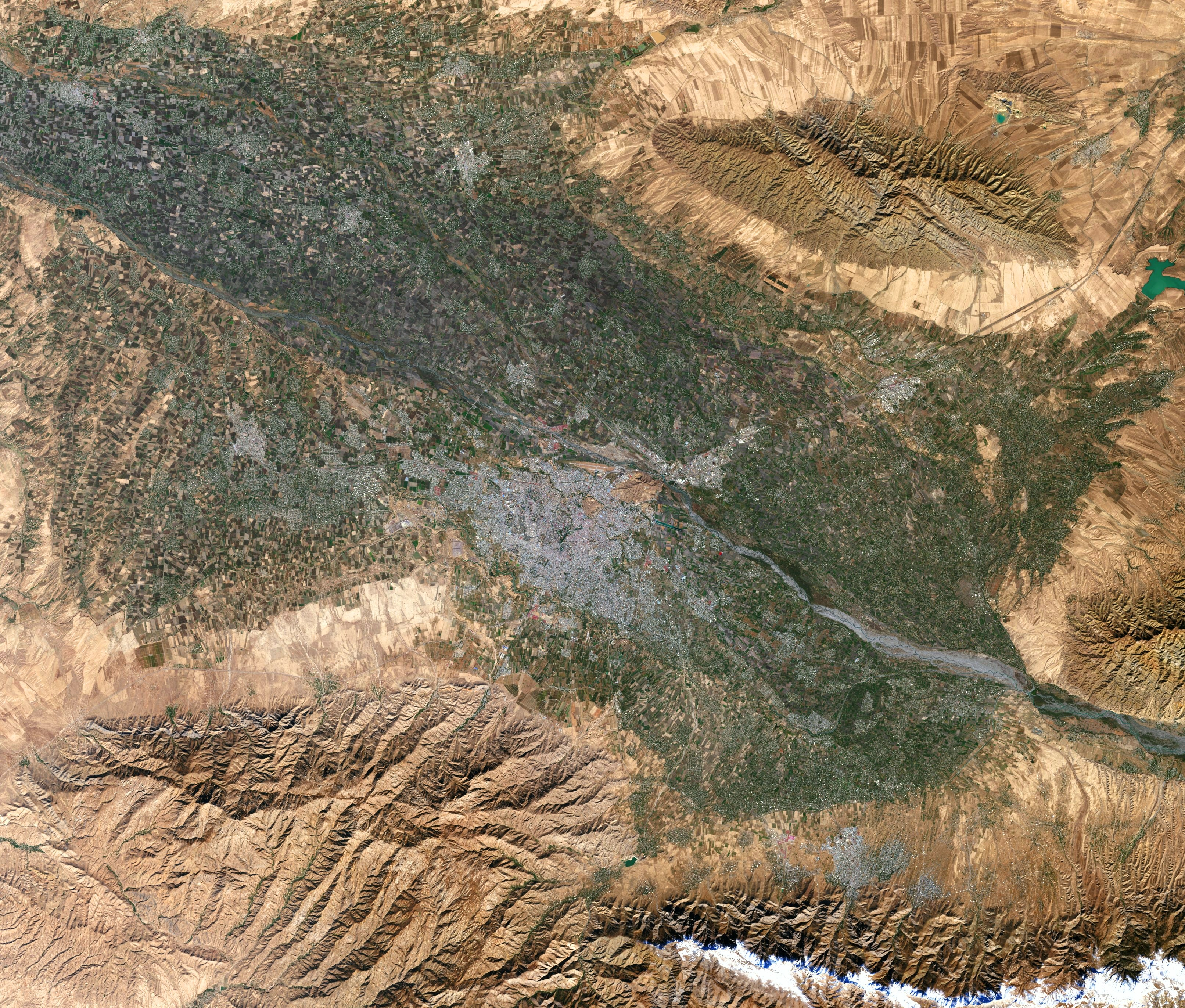 Samarkand city and vicinities, Uzbekistan, LandSat-8 near natural satellite image, 25-OCT-2015, spatial resolution 30m, spectral bands 2,3,4